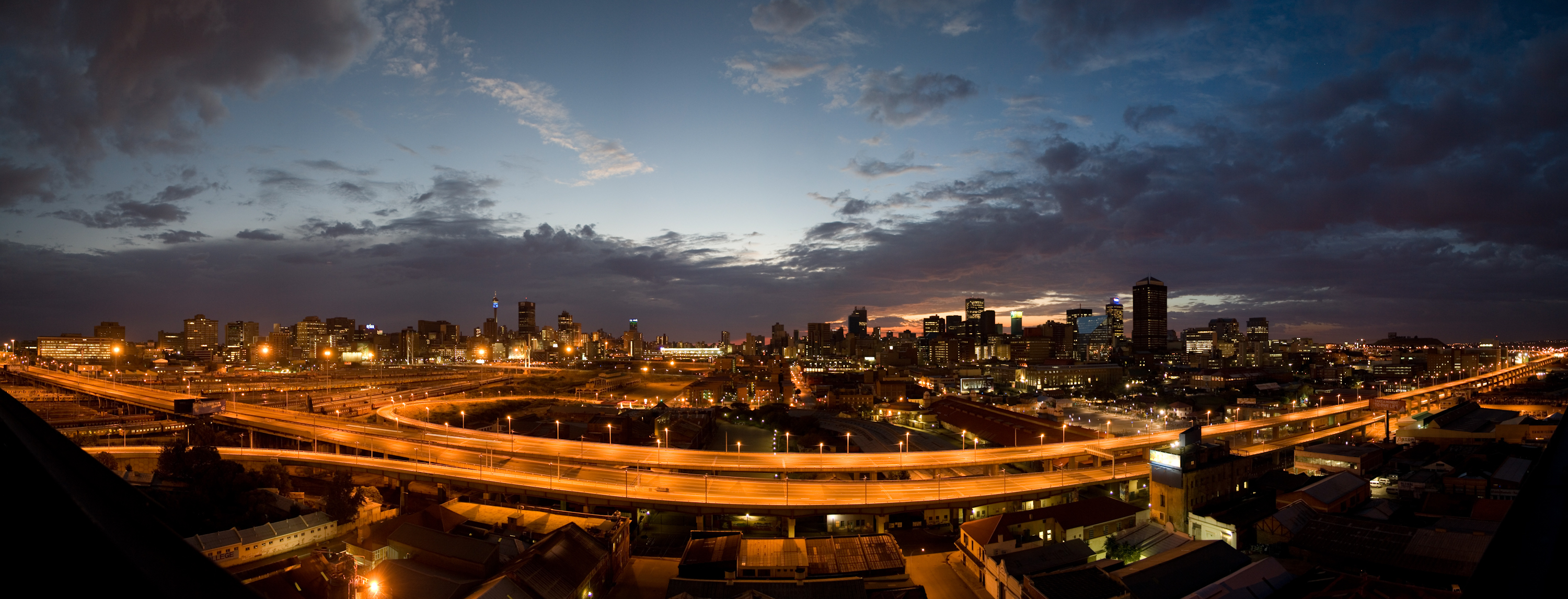 Early morning sunrise over the city of Johannesburg, shot looking East with the M1 Highway in the foreground.